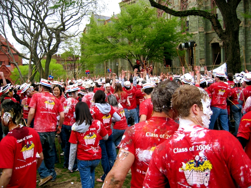 Far Right: Conor Lamb, Kyle Johnson (back turned)